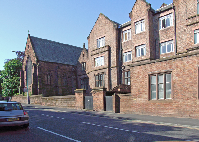 University of Chester Former Church of England teacher training college now has full university status. Main campus in Parkgate Road. Original 19th. century college buildings with the chapel to the left of the picture.